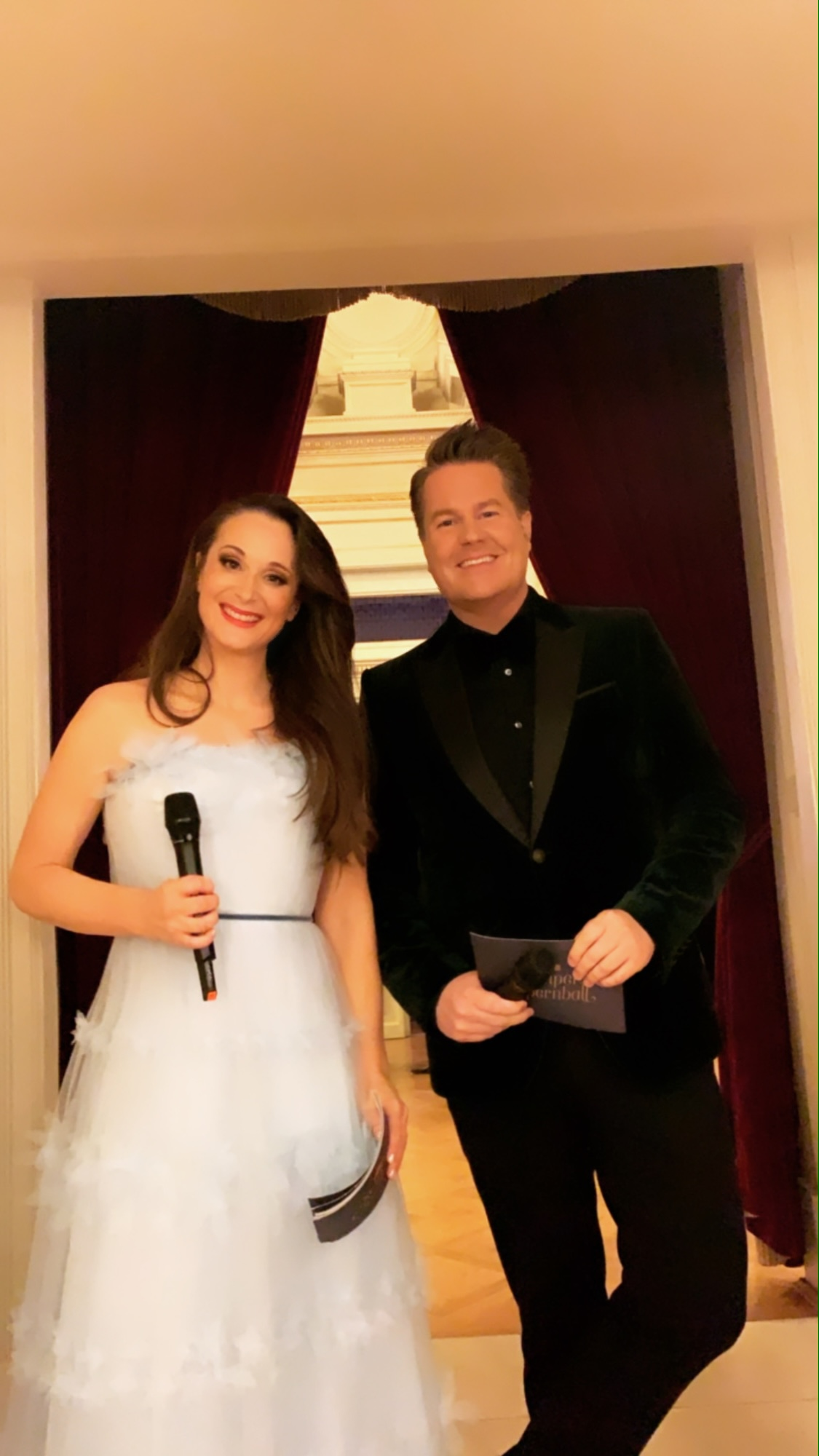 Sarah von Neuburg @ Lars-Christian Karde @Semperopernball